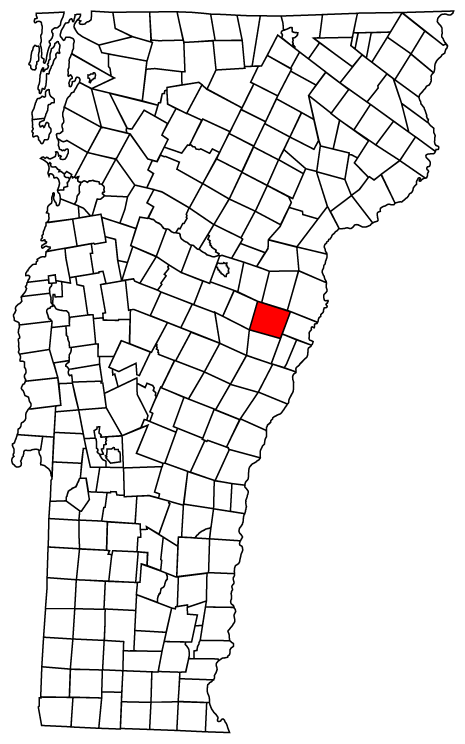 Description: Map of Vermont towns with Corinth highlighted Source: Map created by Jared C. Benedict on 26 March 2004. Copyright: © Jared C. Benedict.